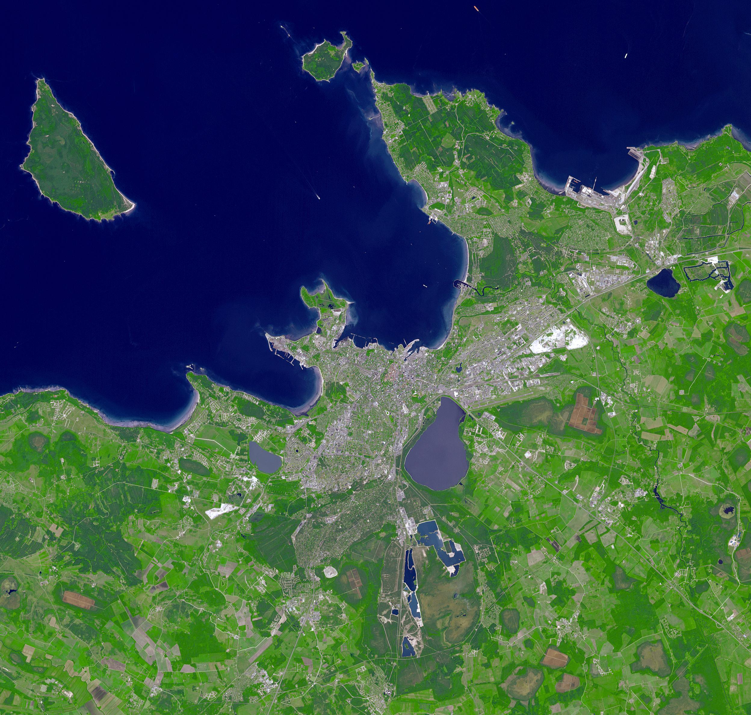 Sattelite picture of Tallinn. This scene covers an area of 35.6 x 37.5 km, and is located at 59.5 degrees north latitude and 25 degrees east longitude.